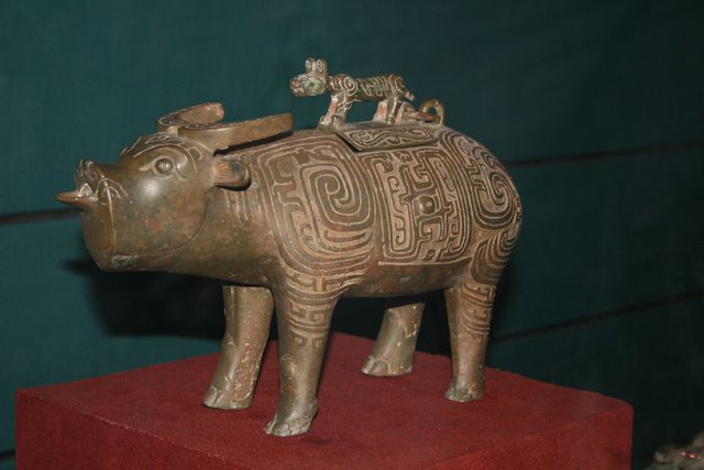 Vessel zun. A small tiger on top of a large water buffalo. Bronze, H. 24 cm L. 38 cm. 6.9 kg. Zhou Dynasty, Spring and Autumn Period, 6 th. cent. B.C. Xi'an, Shaanxi provincial museum.